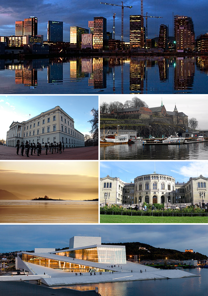 Montage with various landmarks of Oslo, the capital of Norway.